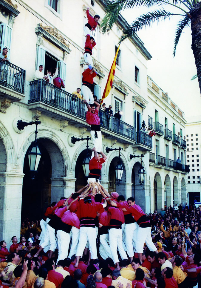 First pilar de 7 with folre. Castellers de Barcelona in Vilanova i la Geltrú